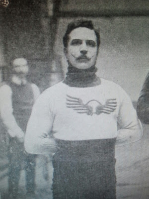 Francisco Henríquez de Zubiría participated in the 1900 Olympic Games as a tug of war athlete for France. He was the first Colombian-born to compete in the competition and by extension to win an Olympic medal having been awarded silver.